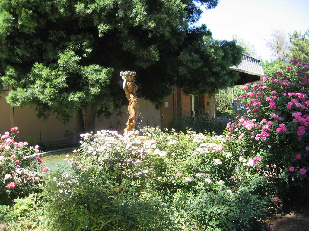 Campus, Fresno Pacific University, Fresno, California